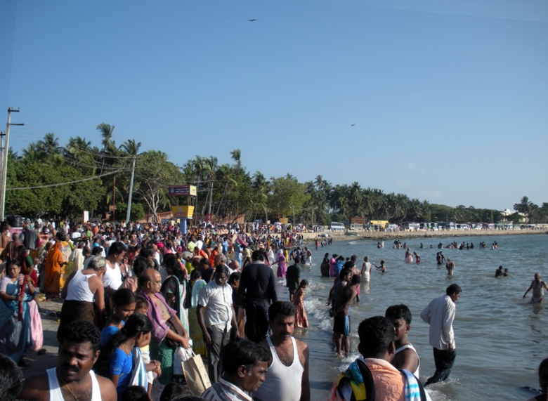 People thronging for the Holy Bath, Rameswaram